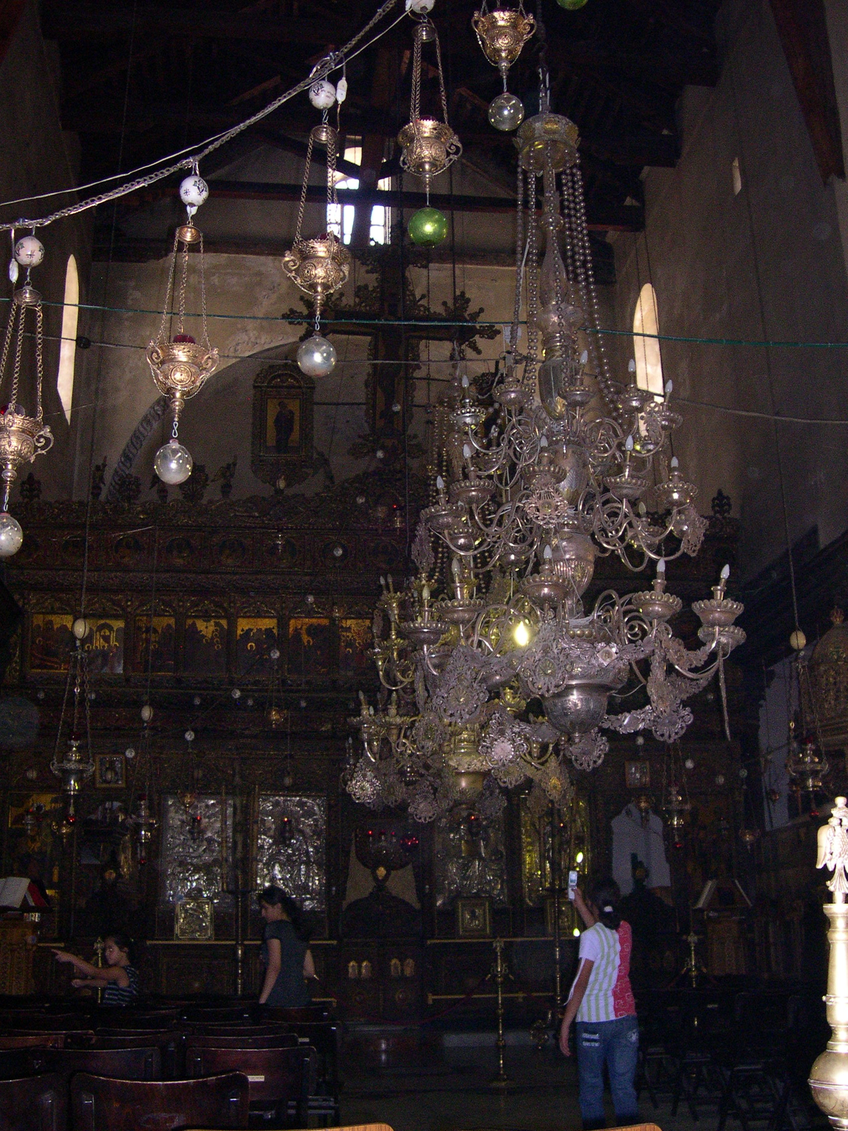 at the front of the church. or maybe it's the "back"